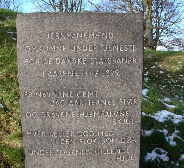 From the Memorial Park, Fredericia, Denmark. Photo taken by Jørgen Larsen, 2007-01-27